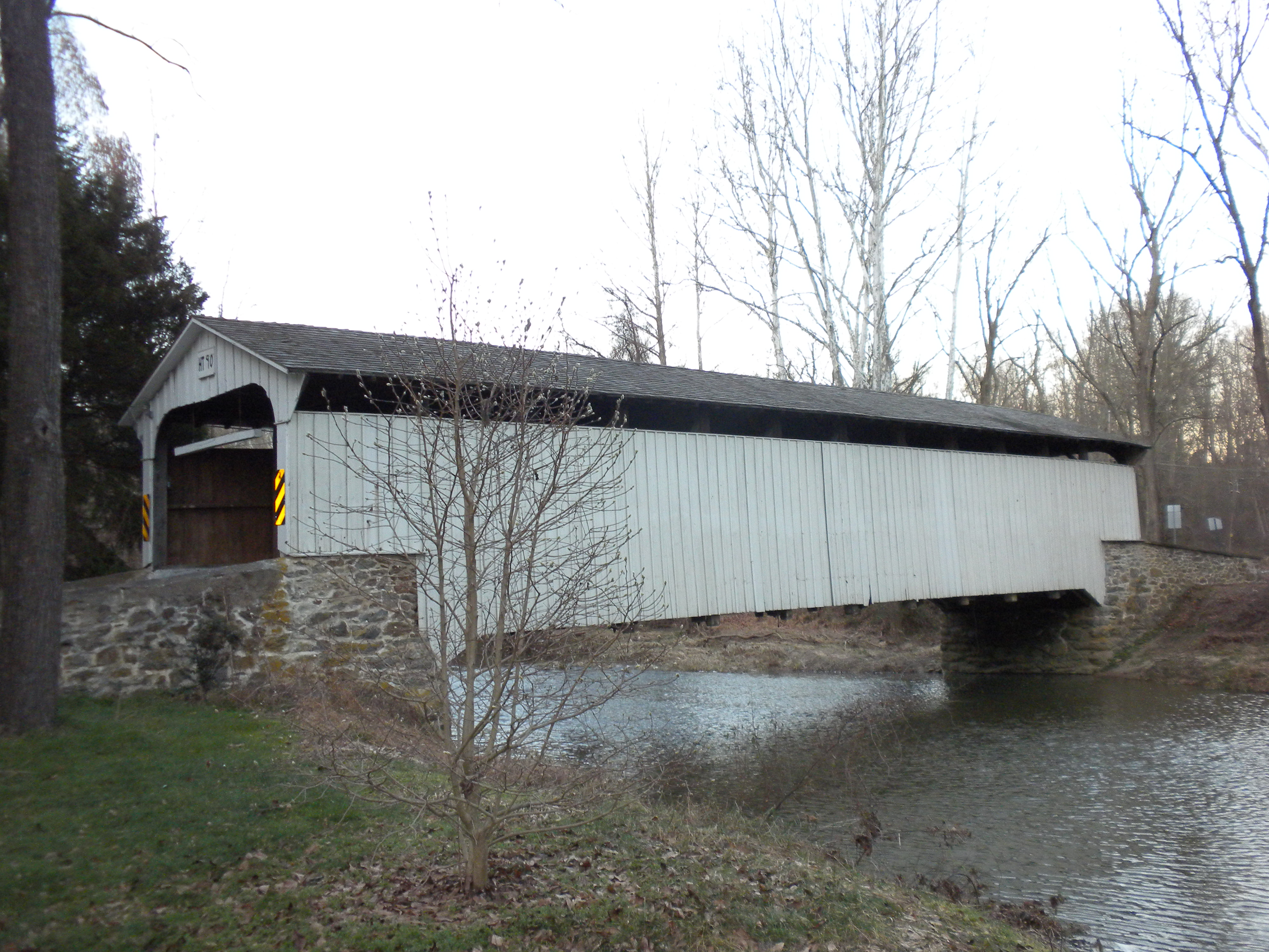 Rudolph Arthur Covered Bridge near Oxford PA in Chester County. On NRHP. My own work donated to public domain.